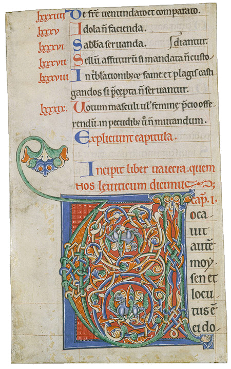 Initial V from a Bible [French], Cistercian Abbey of Pontigny, now in the Cloisters collection, Metropolitan Museum of Art, New York (1999.364.2.)